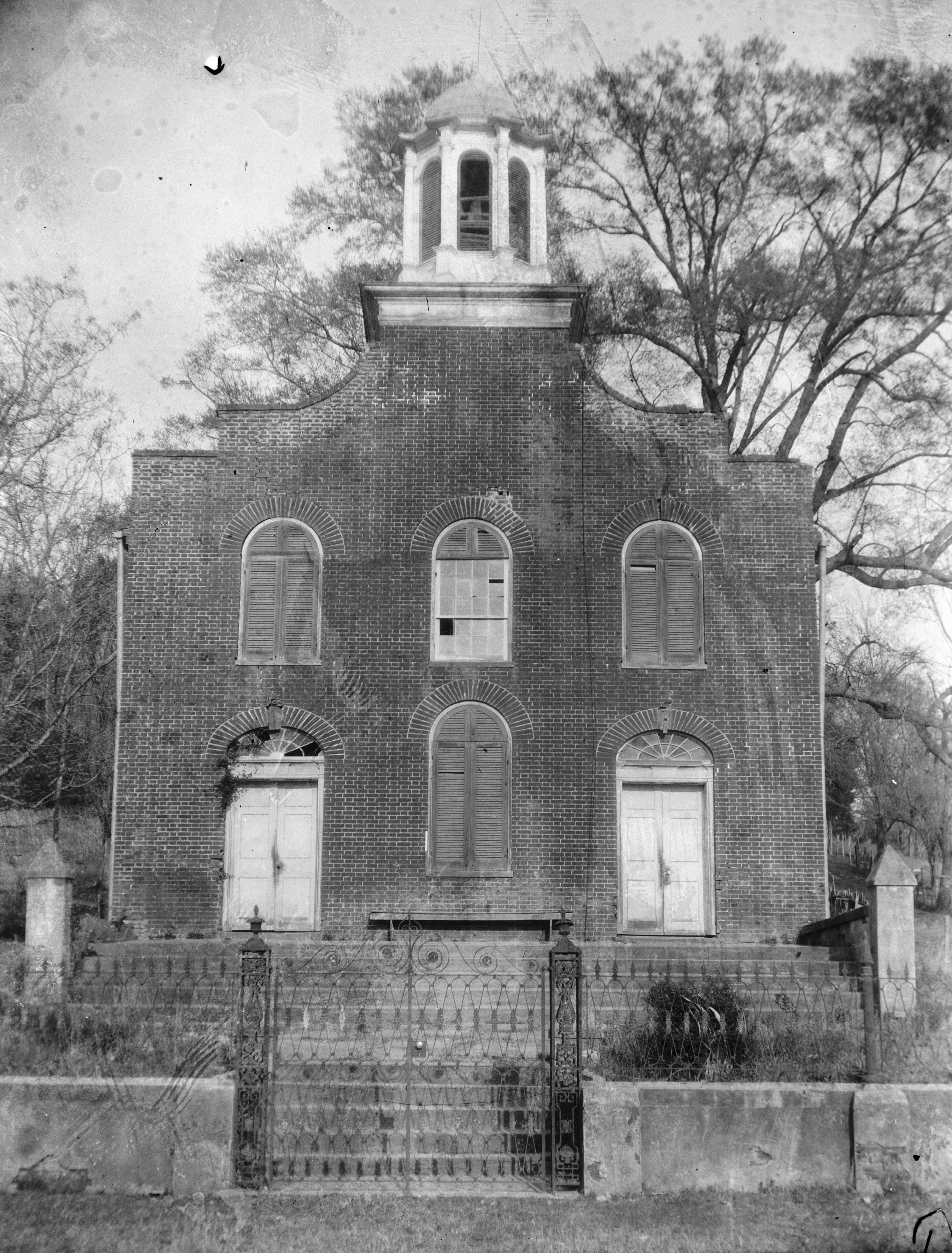 Front of the former First Presbyterian Church in Rodney, Mississippi, United States. Built circa 1831, it is part of the Rodney Center Historic District, a historic district that is listed on the National Register of Historic Places.